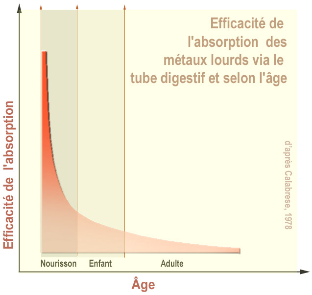 Graph showing how newborns and infants and children absorb more heavy metals than adults (in the gut, but this is true for inhalation or percutaneous passage, all things being equal)